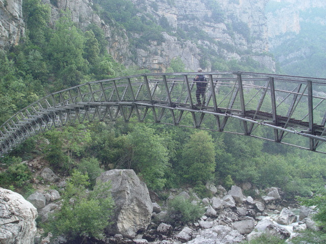 Pedestrian bridge of the Estellié over the Verdon river.